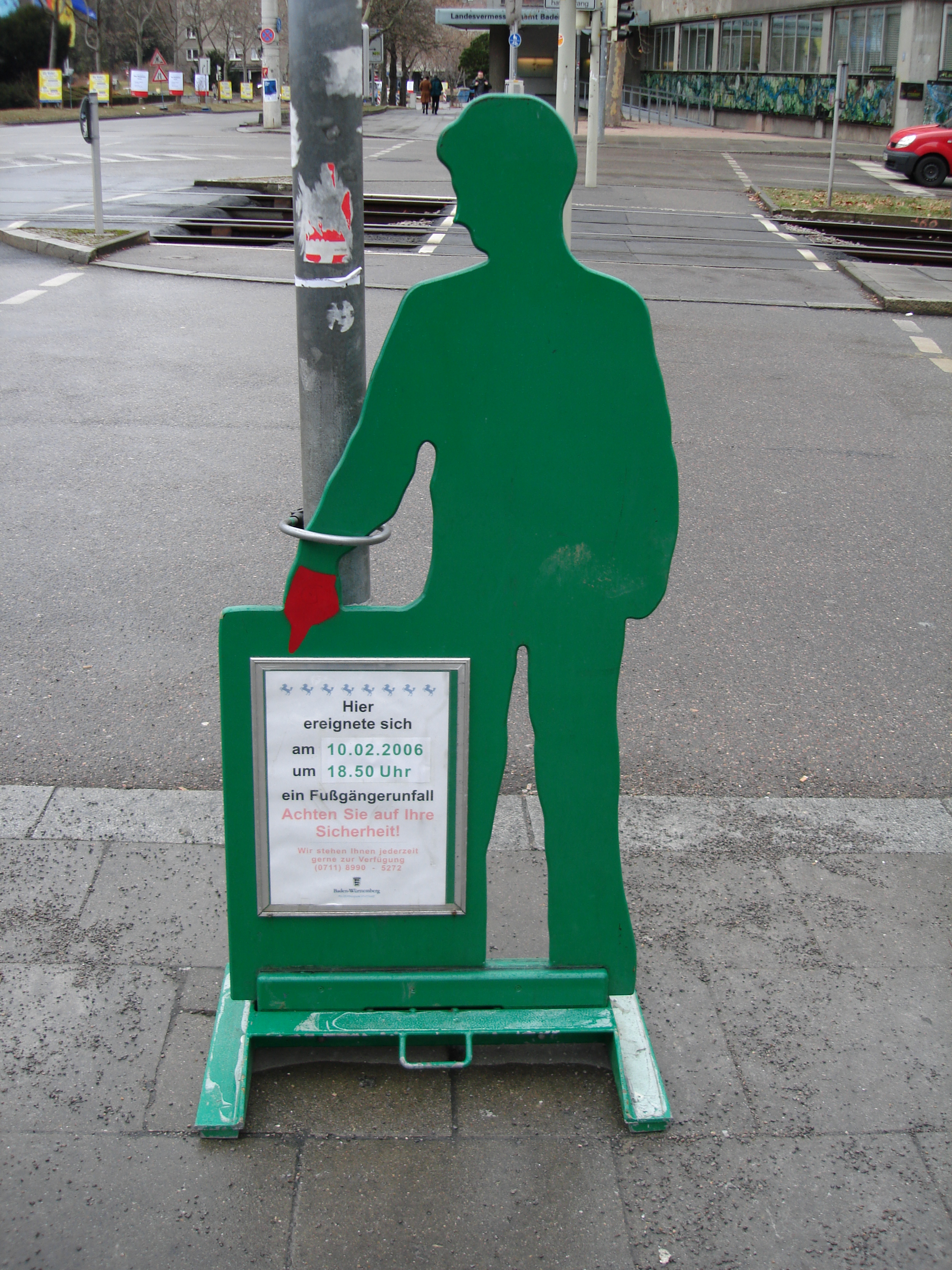 Security advice from the police after a traffic accident involving a pedestrian, seen in Stuttgart